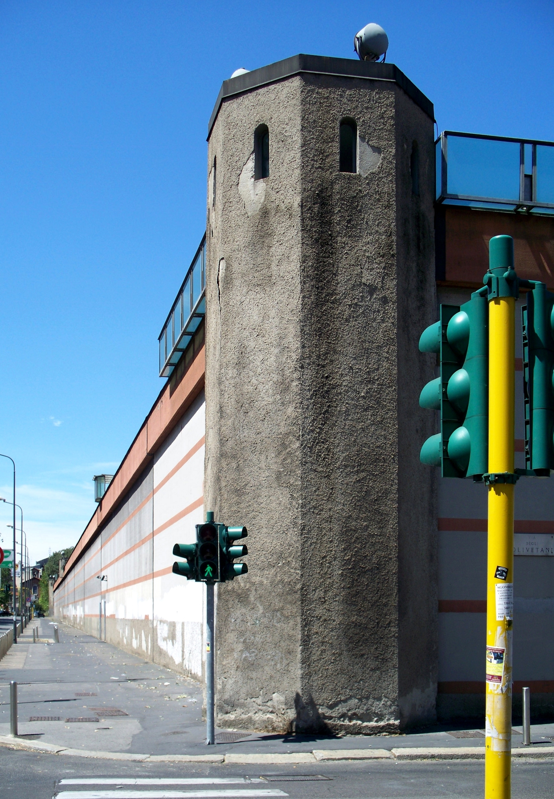 External walls of San Vittore prison in Milan, Italy.